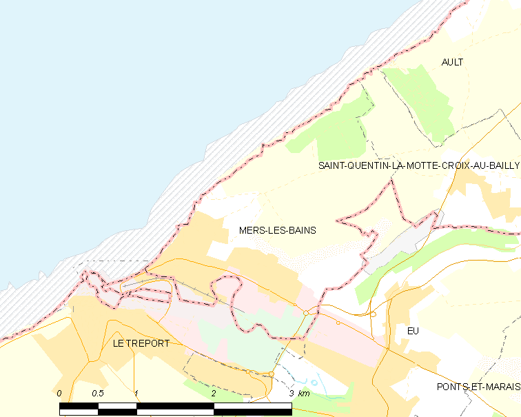 Map of French municipality Mers-les-Bains